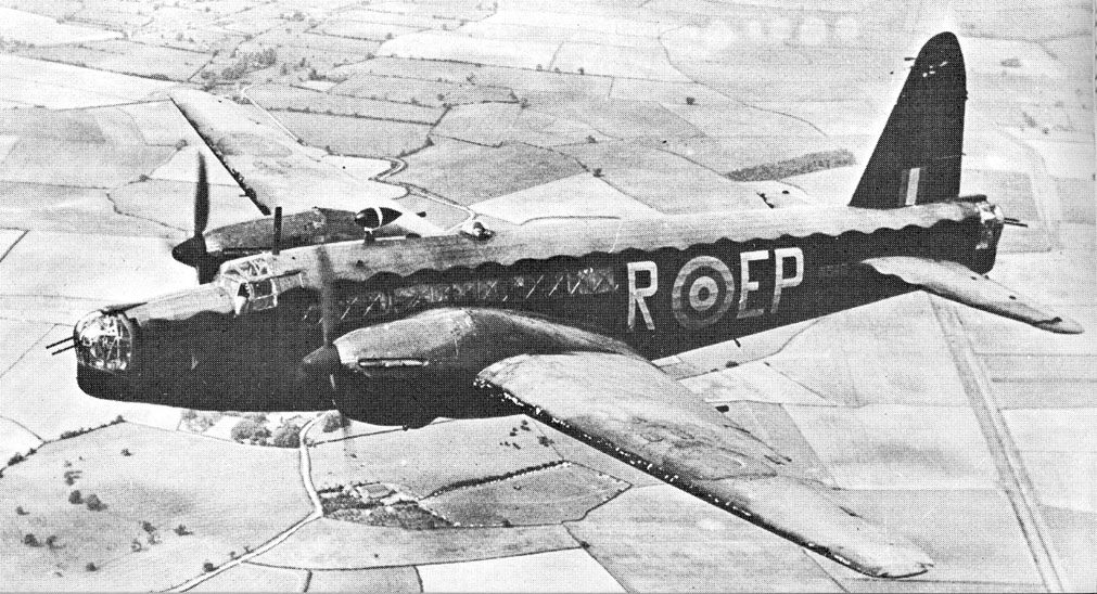 Vickers Wellington Mk.II of No. 104 Squadron, Royal Air Force. 104 Squadron received the Wellington in April 1941. It was part of the RAF Bomber Command until it was moved to the Mediterranean area in April 1942, where it operated until the end of the war. In 1943 it received the Wellington Mk.X, in February 1945 it was re-equipped with the Consolidated Liberator.